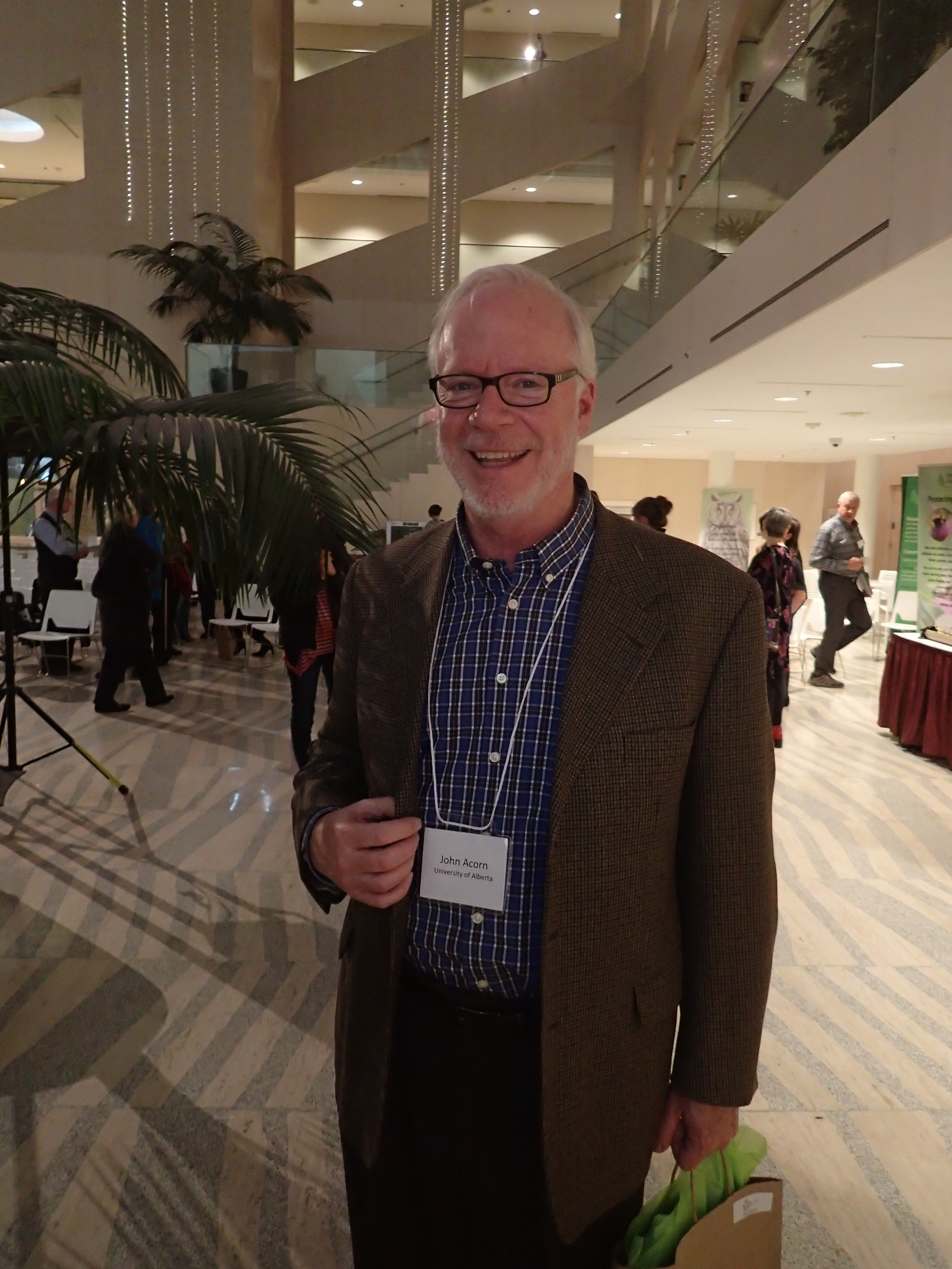 John Acorn, aka The Nature Nut, at Edmonton City Hall after giving the keynote speech for The Edmonton and Area Land Trusts 10th Anniversary Gala.